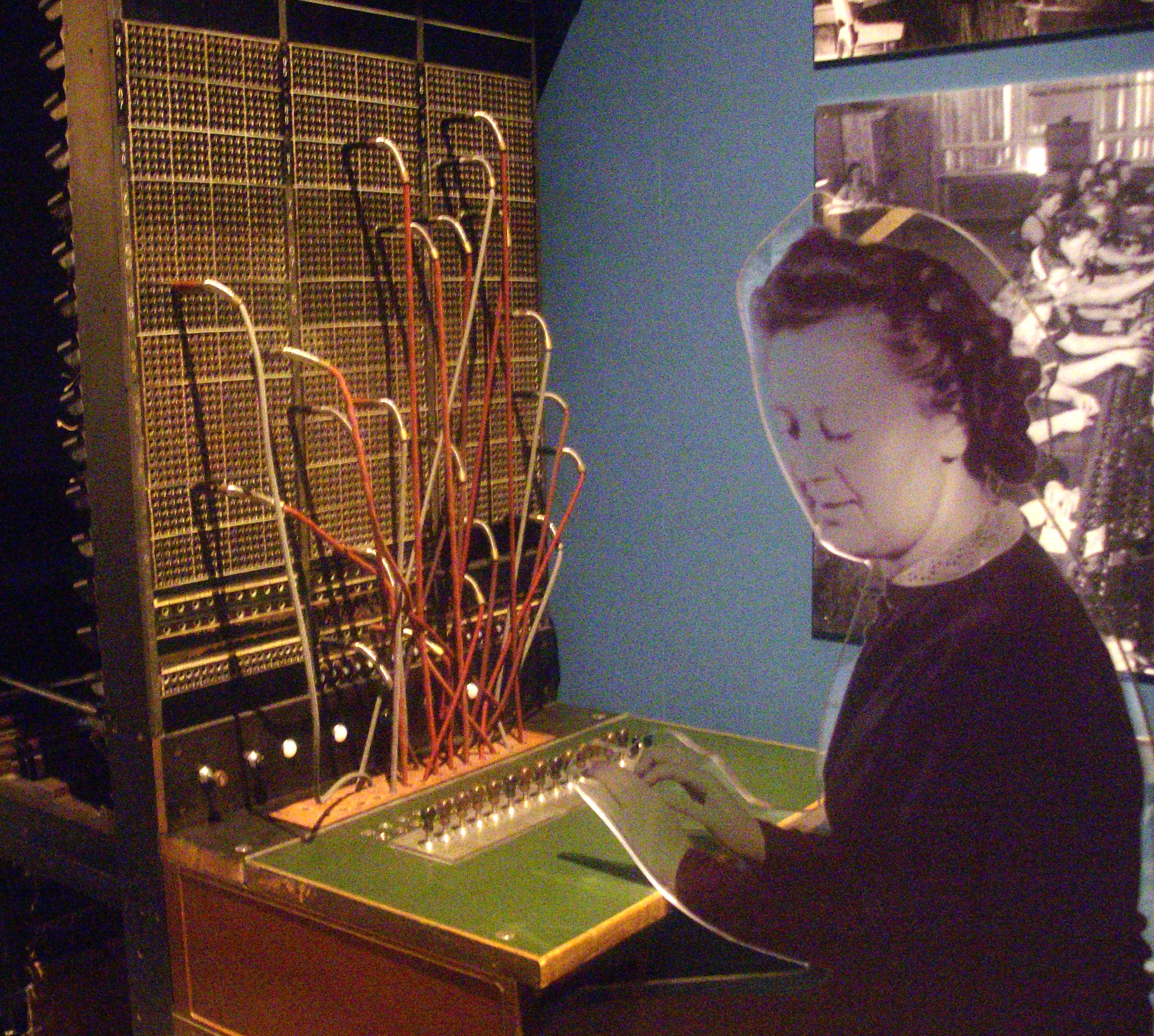 Manual telephone exchange with 14 lines. An interior built at a museum exhibition in Werstas, Tampere, Finland.